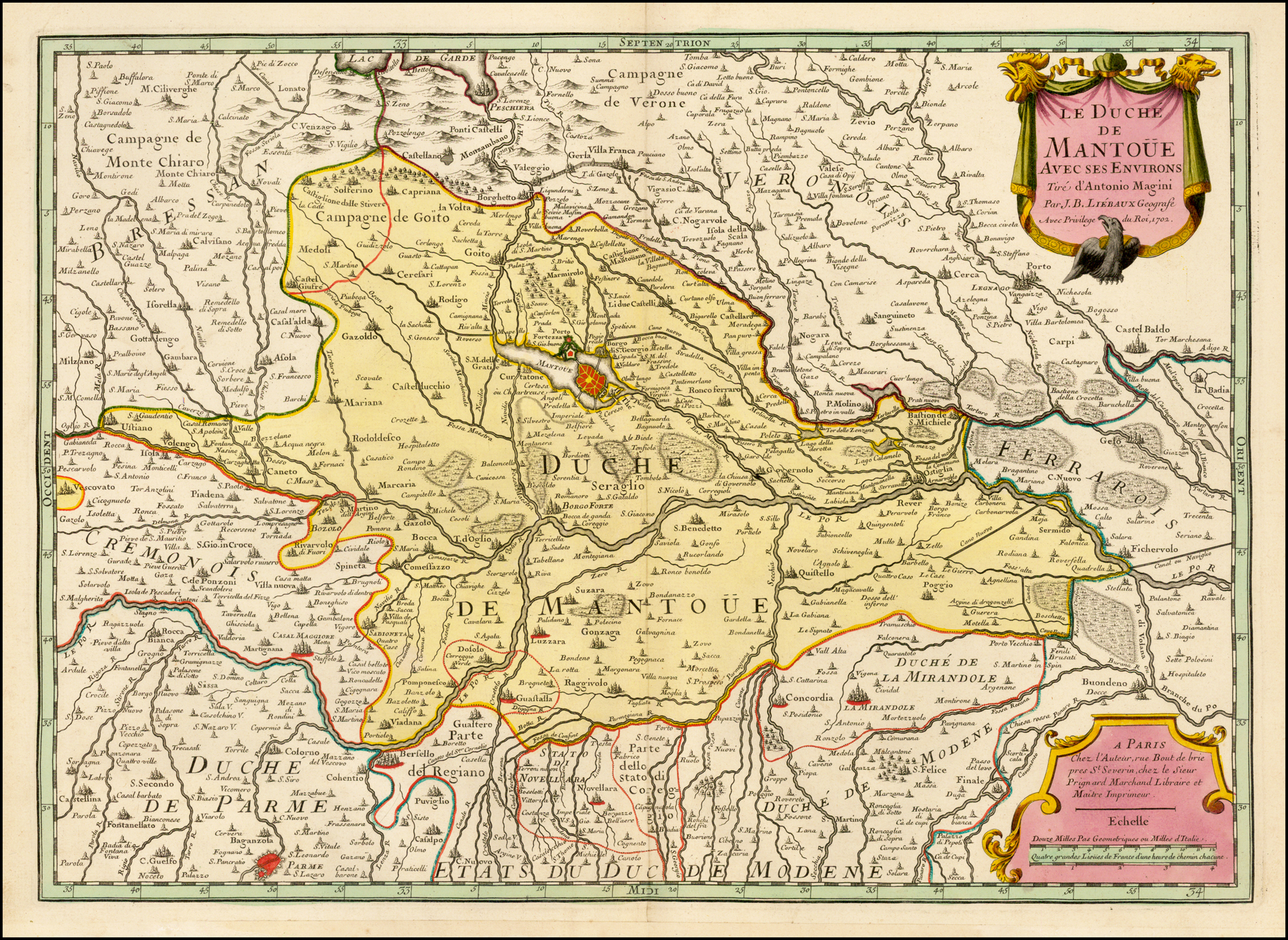 The Duchy of Mantua, by French engraver Jean Baptiste Liébaux, based on an earlier map by Italian cartographer Giovanni Antonio Magini.